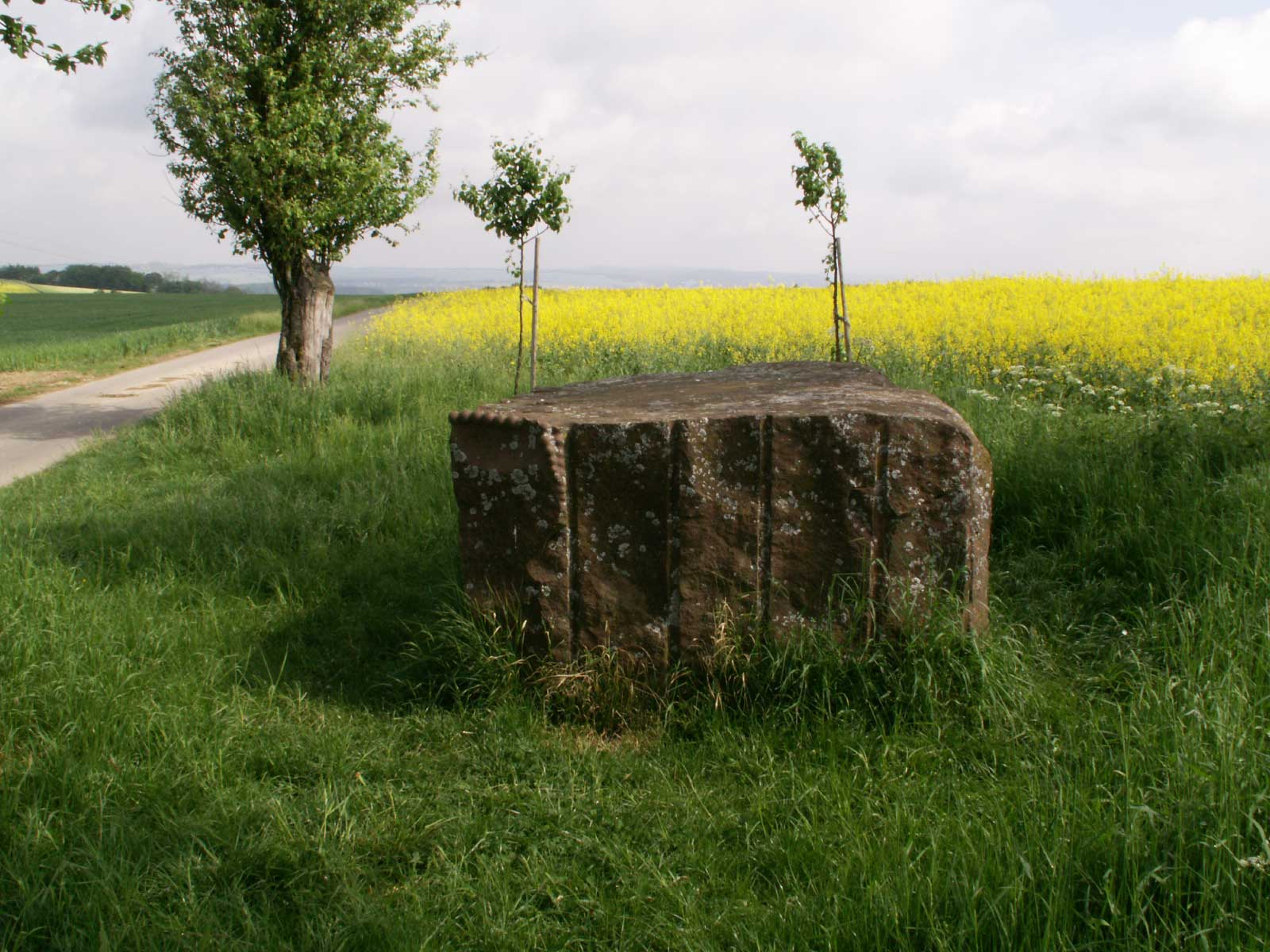 Karl Prantl, Germany, Saarland, „Steine an der Grenze“, 1987, Meditationsstein